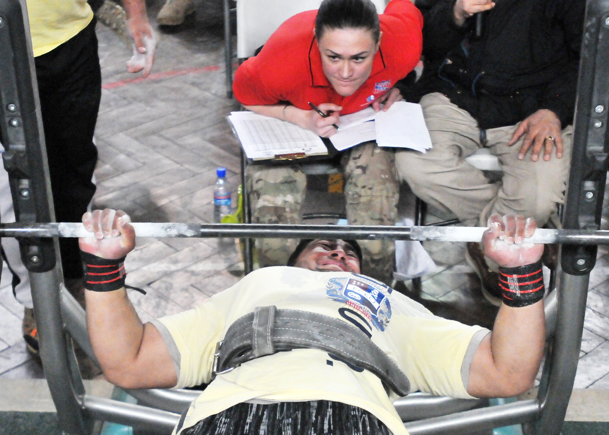 Khaleq Najifi, Afghan National powerlifting team member, performs a bench press Feb. 17 during the Afghan and ISAF Friendship Powerlifting Exhibition inside the ISAF headquarters Coliseum Gym. Members of the Afghan National and ISAF powerlifting teams participated in the event to promote sports, fitness and friendship in Afghanistan. (U.S. Air Force photo by Staff Sgt. Nestor Cruz)